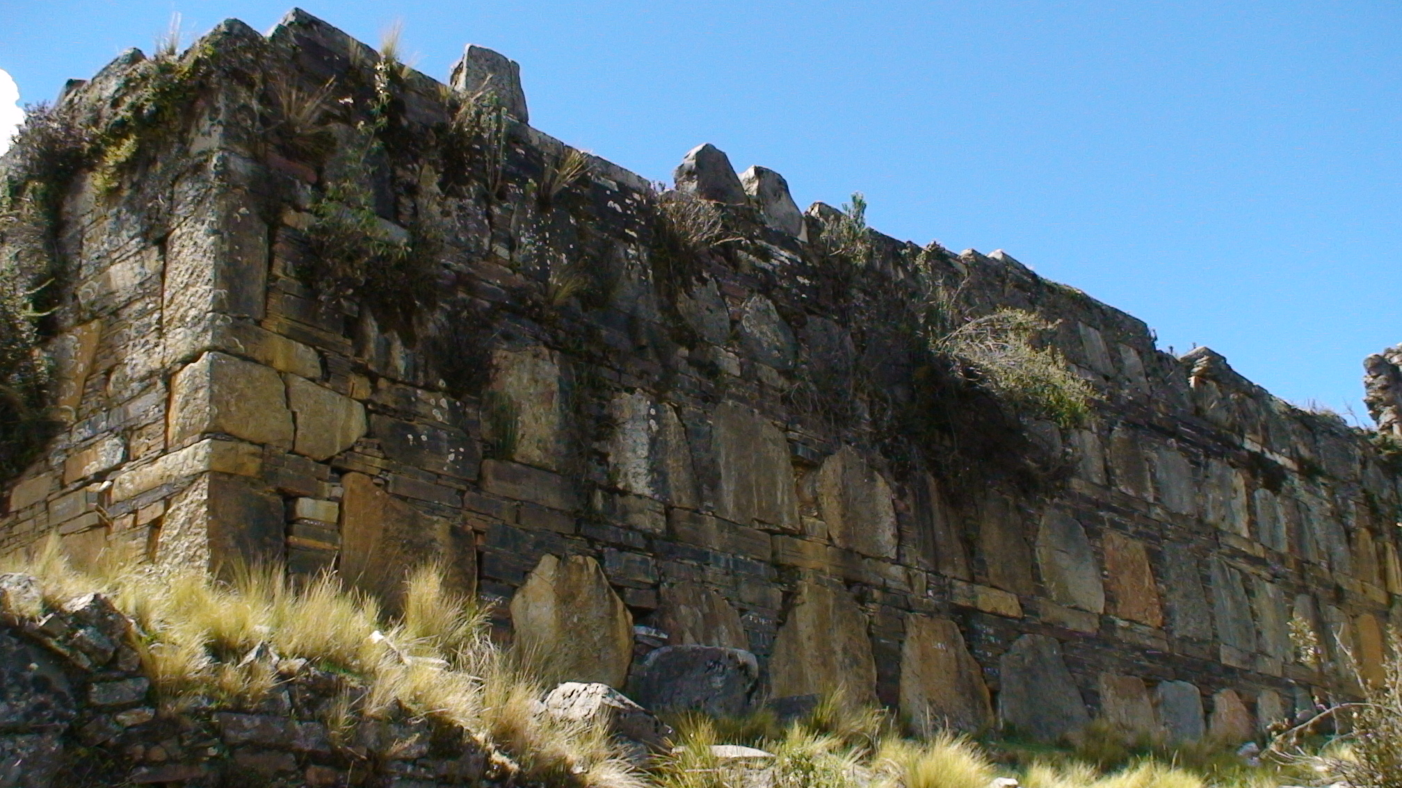 Lado Este del claustro del recinto Mayor